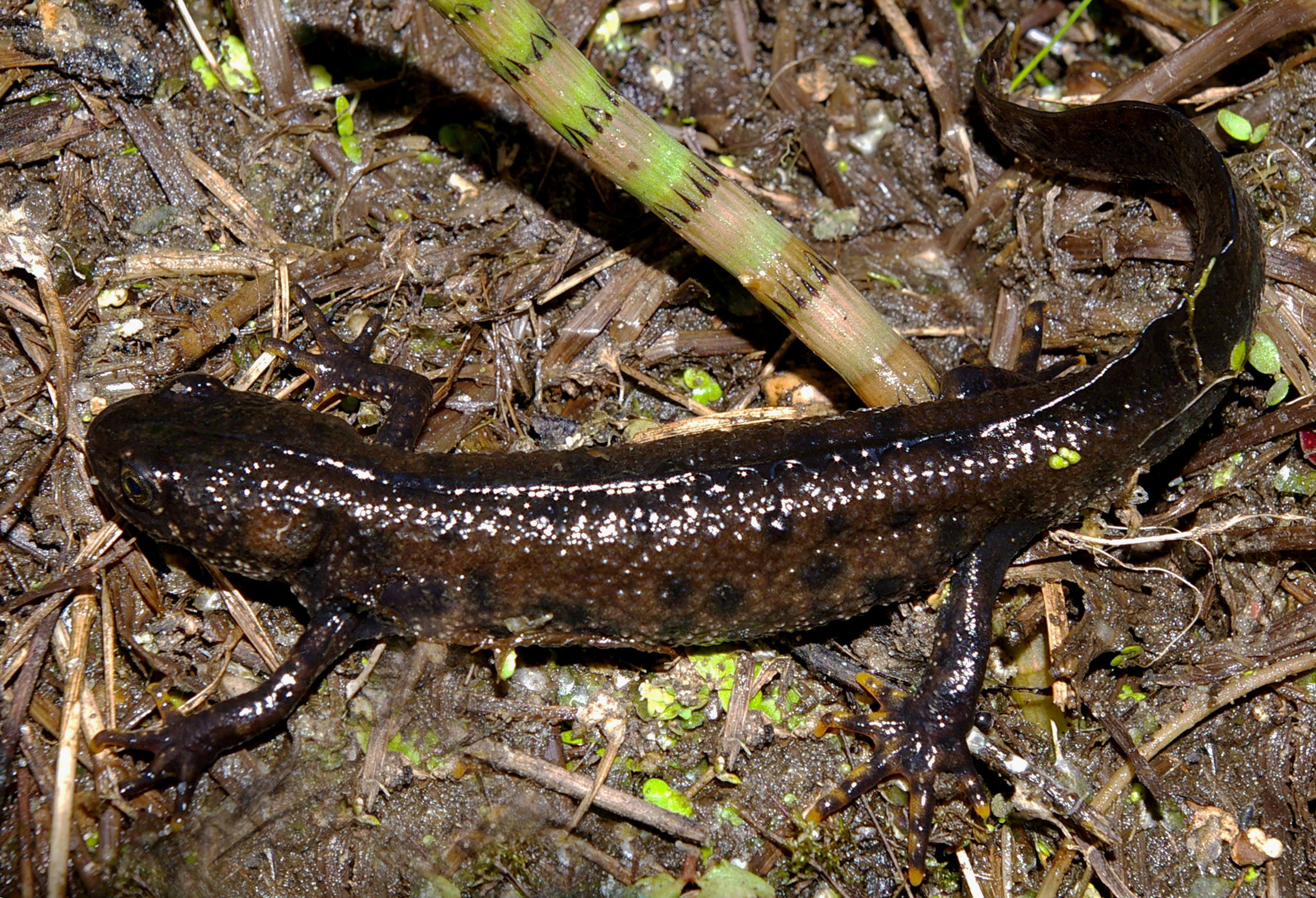 A male specimen of the Crested Newt, Triturus cristatus, short after the end of the breeding period (morphologically between water- and land phase). Whole body length: about 11 cm.